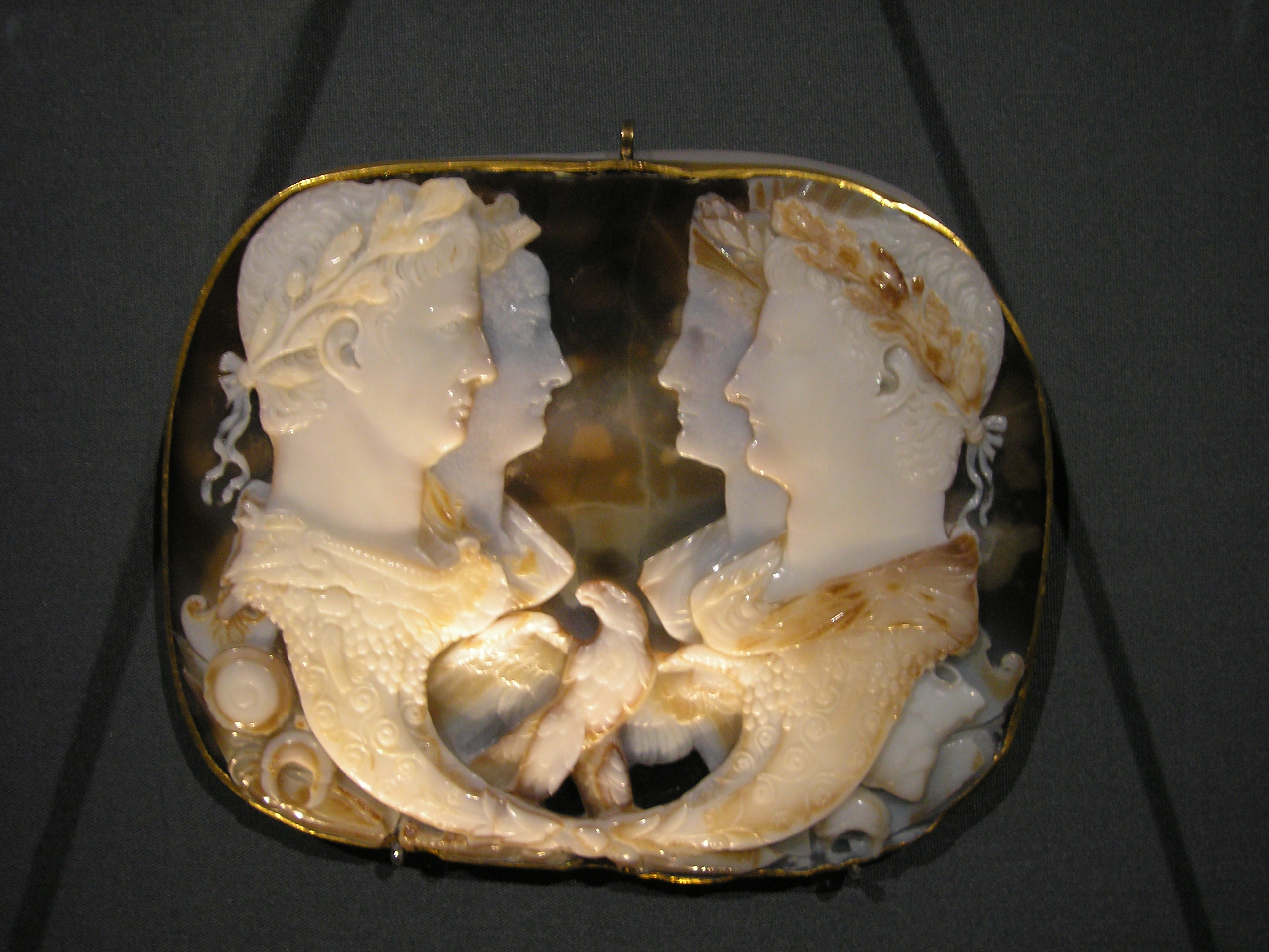 The Gemma Claudia, Roman, 49 C.E.(?). Five-layered onyx, height: 12 cm. Setting: gold rim. Inv.#. IX A 63. In the Collection of Greek and Roman Antiquities in the Kunsthistorisches Museum, Vienna. Depicts on the left side the Emperor Claudius and his fourth wife Empress Agrippina minor. Opposite the couple are the parents of Agrippina, Germanicus and Agrippina maior.